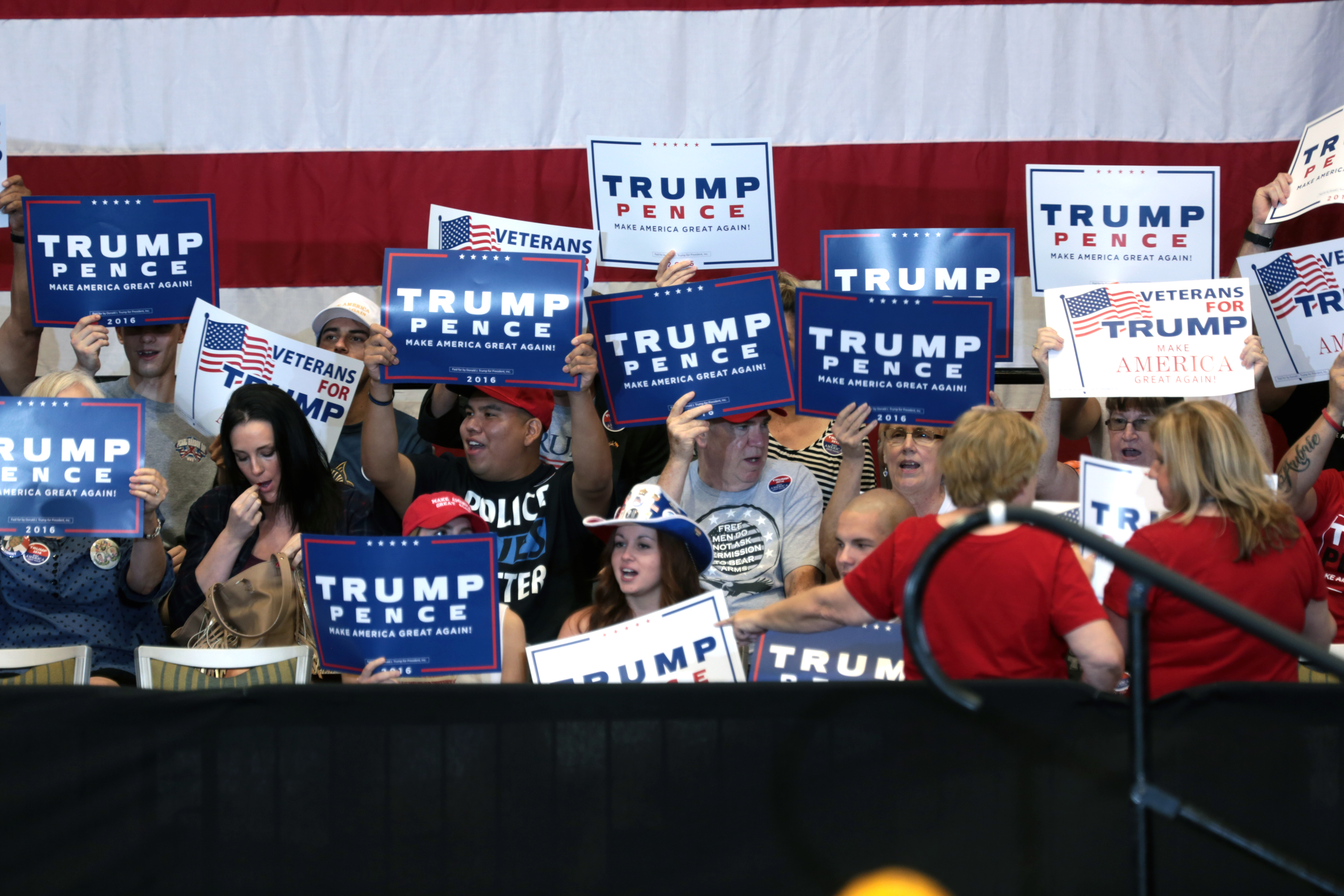 Supporters of Donald Trump at a campaign rally with Governor Mike Pence at the Phoenix Convention Center in Phoenix, Arizona.